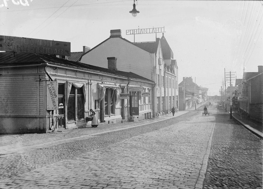 Building in Kauppakatu 13, Kuopio, Finland